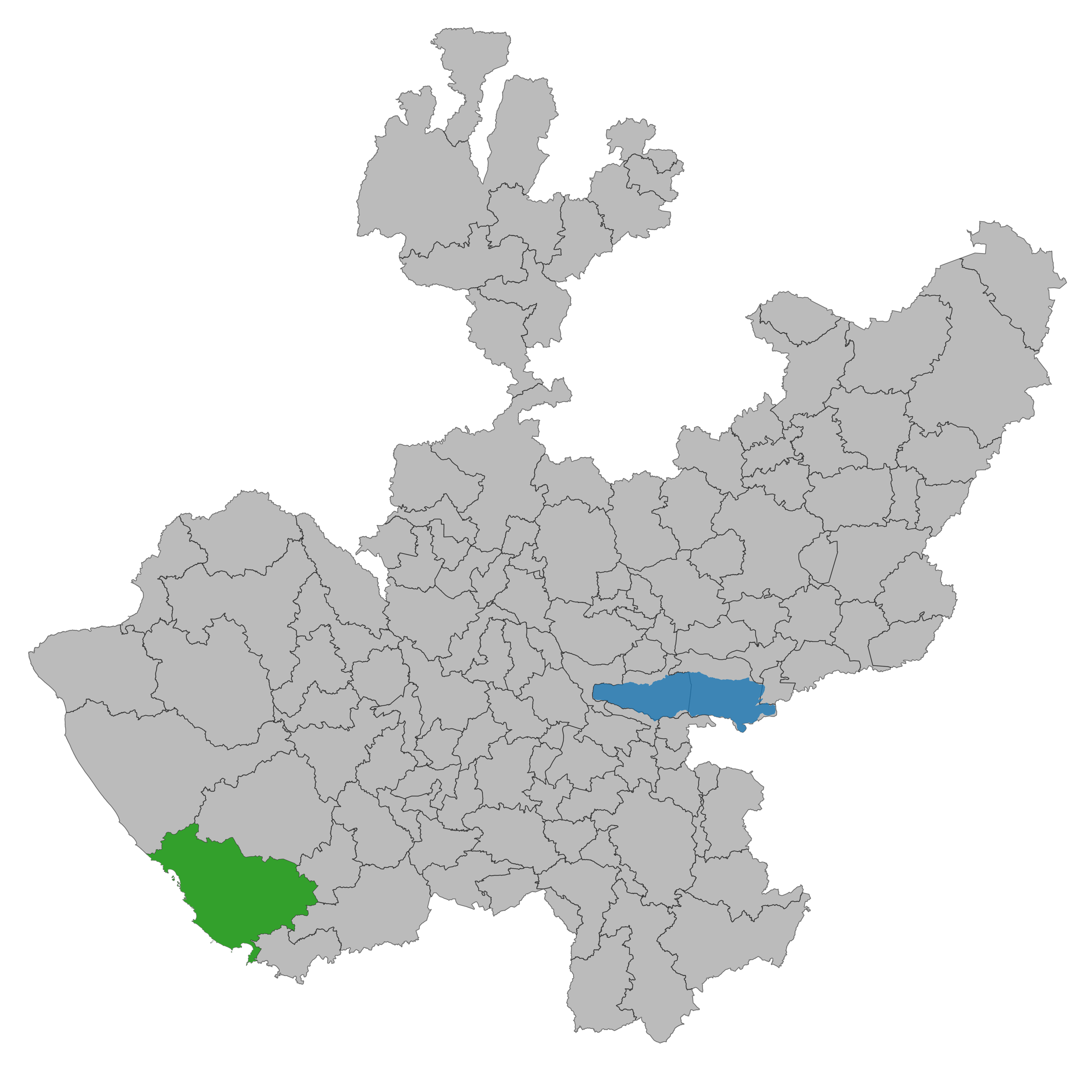 Municipality of Jalisco. Prepared with the software QGIS version 2.8.2 Wien & with information of SCINCE 2010 version 05/2013